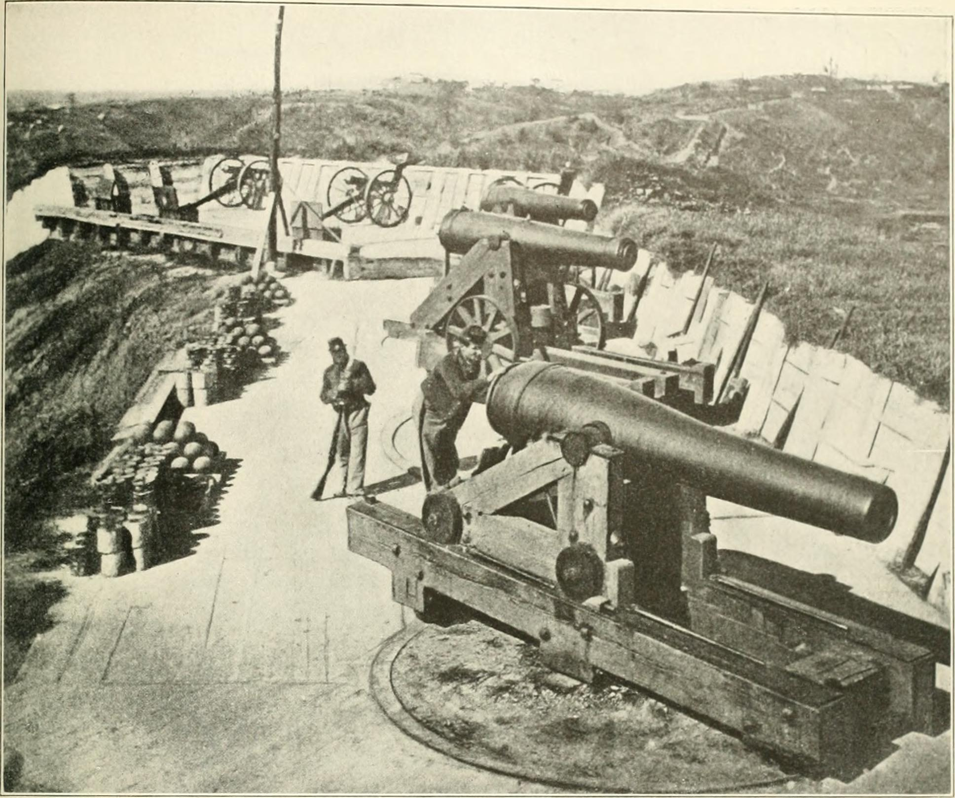 Title: The photographic history of the Civil War : thousands of scenes photographed 1861-65, with text by many special authorities Year: 1911 (1910s) Authors: Miller, Francis Trevelyan, 1877-1959 Lanier, Robert S. (Robert Sampson), 1880- Subjects: United States -- History Civil War, 1861-1865 Pictorial works United States -- History Civil War, 1861-1865 Publisher: New York : Review of Reviews Co. Text Appearing Before Image: ' Text Appearing After Image: HI&MT, 1911, HtVIEW OF REVIEWS CO. THE WORK OF THE BESIEGERS Battery Sherman, on tlie Jackson Road, before Vicksburg. Settling down to a siege did not mean idlenessfor Grants army. Fortifications had to be opposed to the formidable one of the Confederates and a con-stant bombardment kept up to silence their gnns, one by one. It was to he a (haw ii-ont duel in whicliPemberton, hoping for the long-delayed relief from Johnston, held ont bravely against starvation and evenmutiny. For twelve miles the Federal lines stretched around Vicksburg, investing it to the river bank,north and south. More than eighty-nine battery positions were constructed by the Federals. BatterySherman was exceptionally well built—not merely revetted with rails or cotton-bales and floored withrough timber, as lack of proper material often made necessary. Gradually the lines were drawn closer amicloser as the Federals moved up their guns to silence the works that they had failed to take in May. Atthe time of t